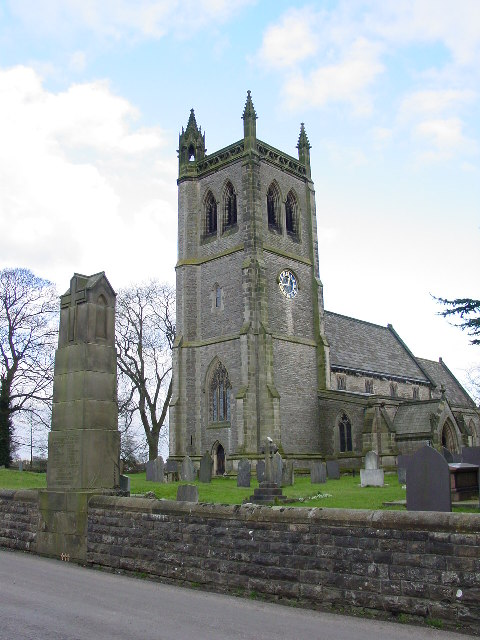 St Martin's parish church, Osmaston, Derbyshire, seen from the southwest. On the left in the foreground is the parish's First World War monument.